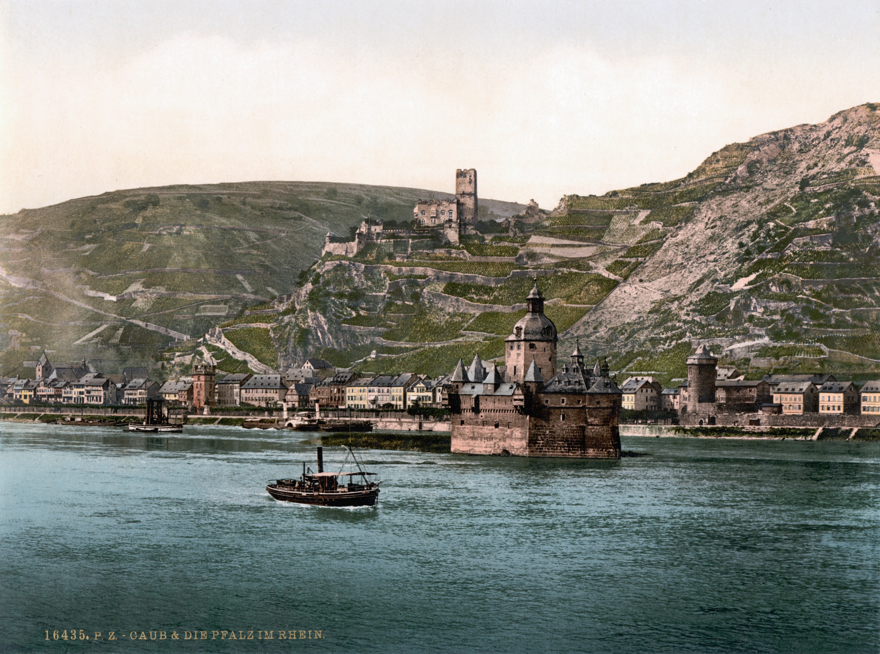 Caub und die Pfalz im Rhein um 1900